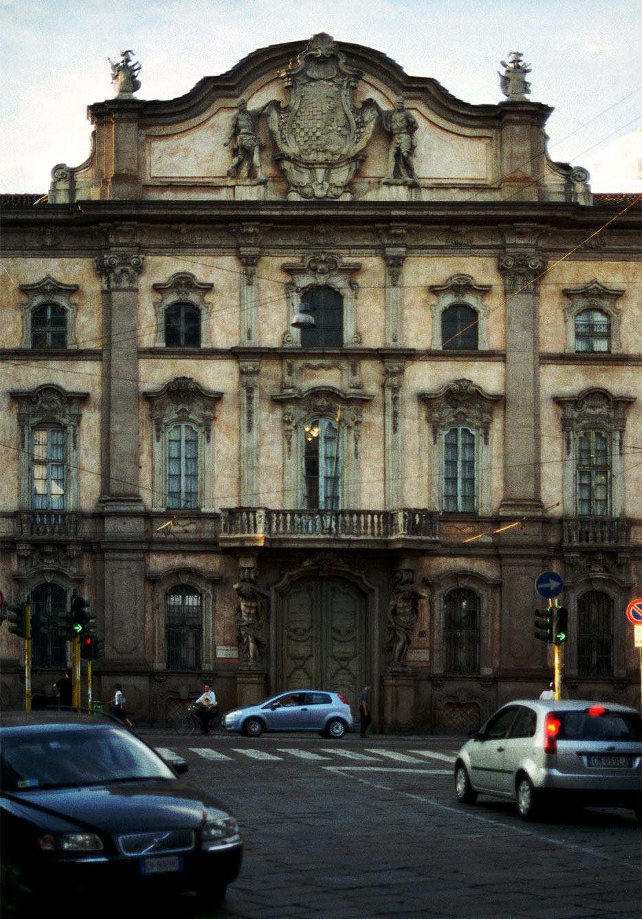 Central portion of the façade of the Palazzo Litta (or Arese Litta) at 24 Corso Magenta, Milan, Italy.